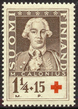 Postage stamp depicting Finnish statesman and lawyer Matthias Calonius